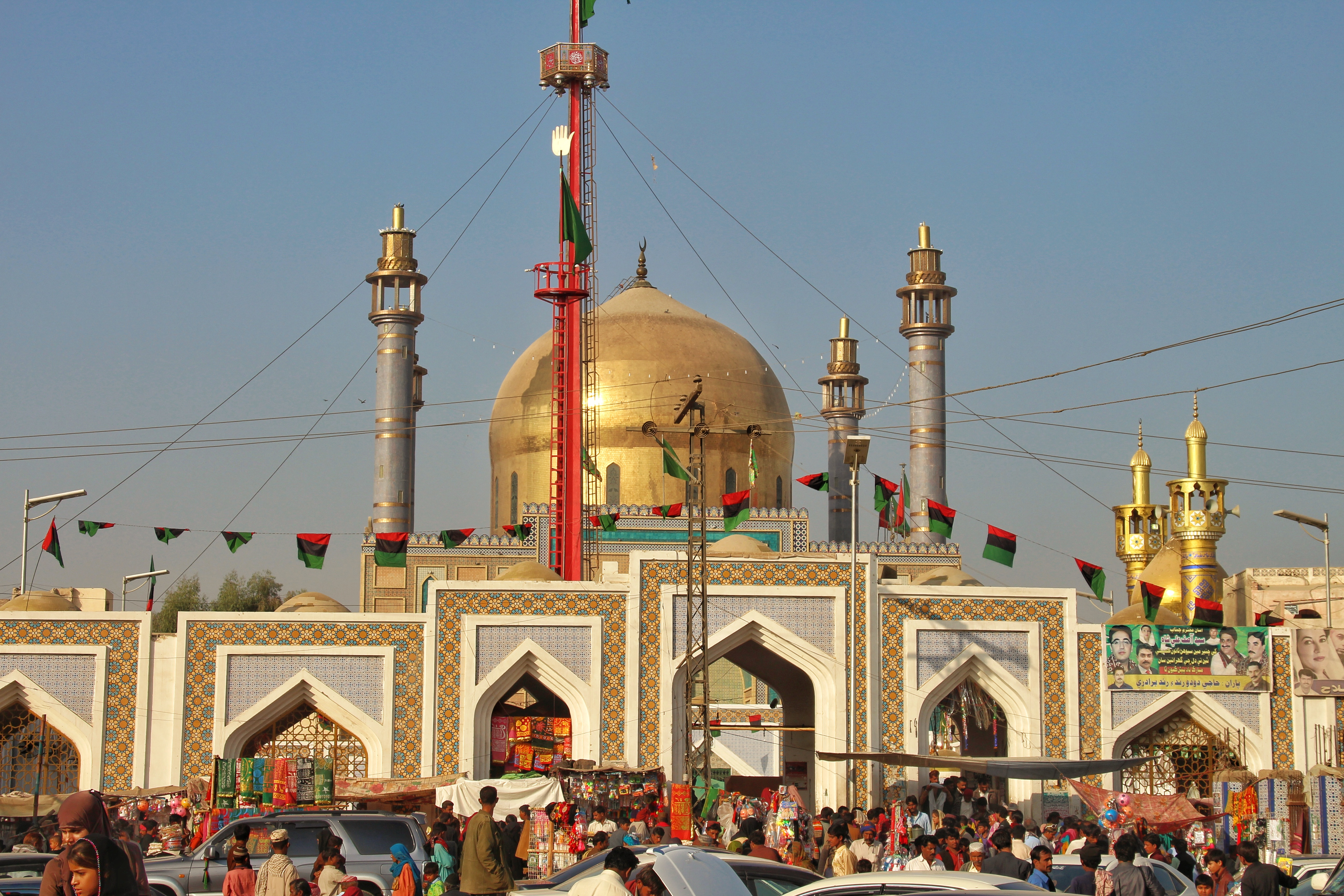 Shrine of Lal Shahbaz Qalandar This is a photo of a monument in Pakistan identified as the SD-U-6